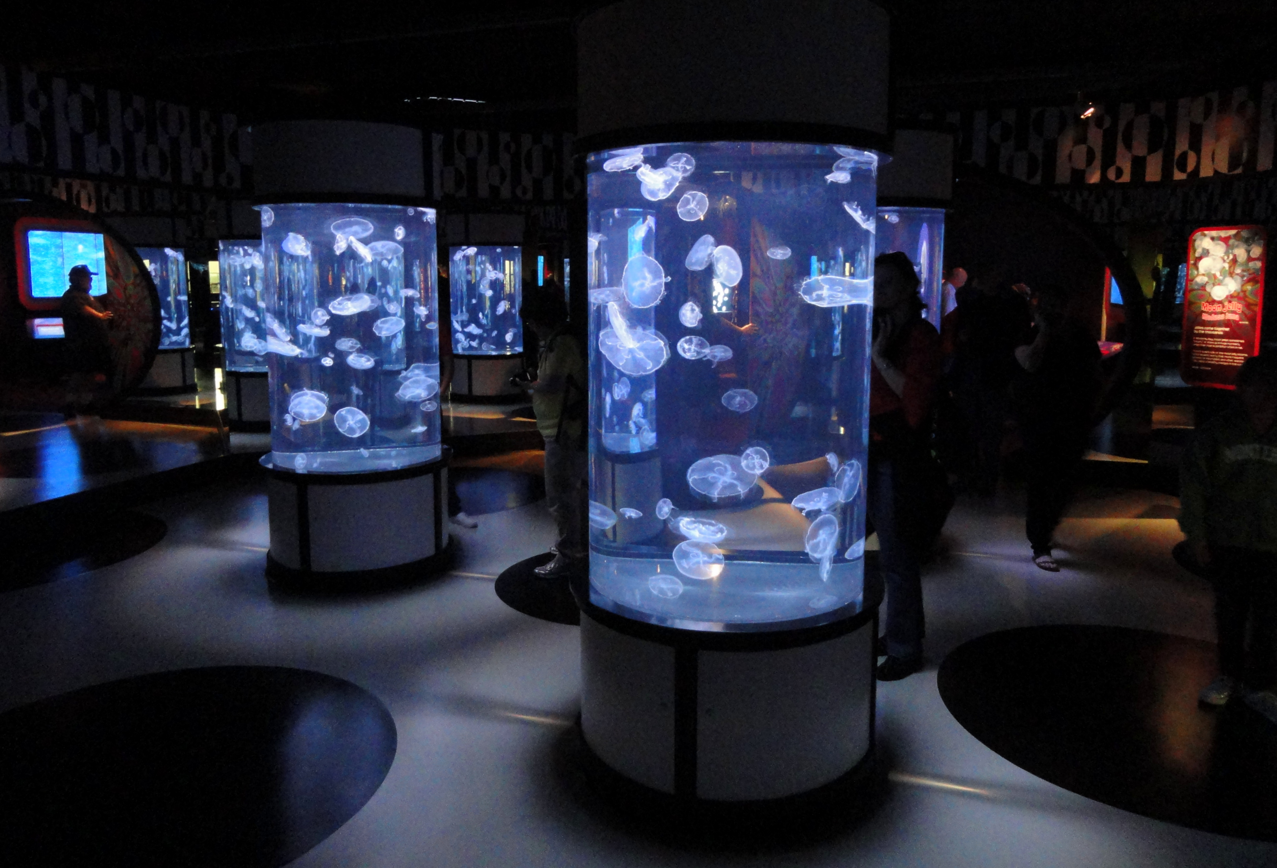 Interior view of the Monterey Bay Aquarium, Monterey County, California, USA.